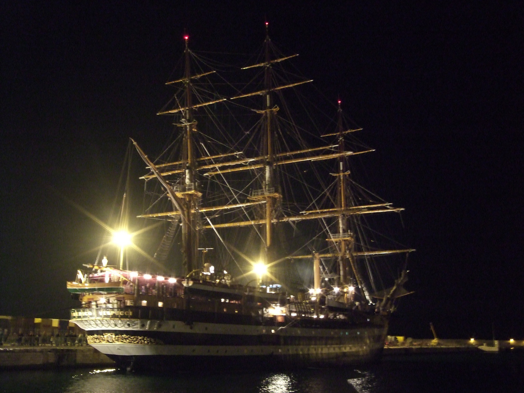 Amerigo Vespucci ship in the harbour of Bari (Italy)